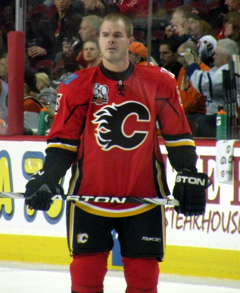 Calgary Flames defenceman Ian White prior to a National Hockey League game against the Philadelphia Flyers.